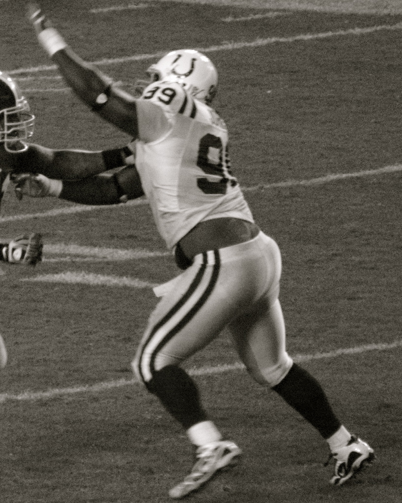 Colts vs. Redskins, 2010